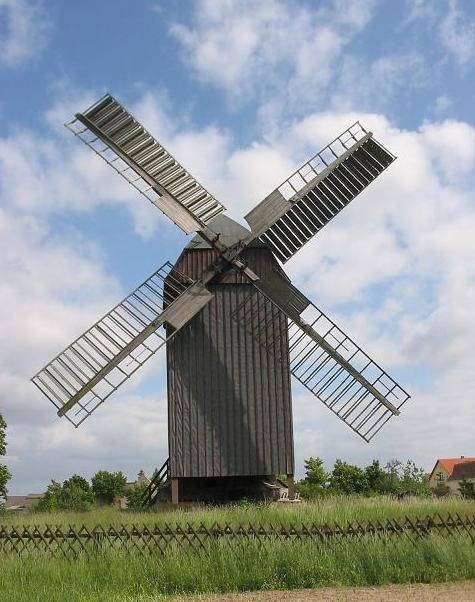 Post mill in Cammer. The village Cammer is a part of the municipality Planebruch in the district Potsdam Mittelmark, state Brandenburg, Germany. The village is situated on the northwest border of the Belziger Landschaftswiesen (territory Grassland)/„Baruther Urstromtal“ (glacial valley)/Naturpark Hoher Fläming (natural reserve) subplateau Zauche.